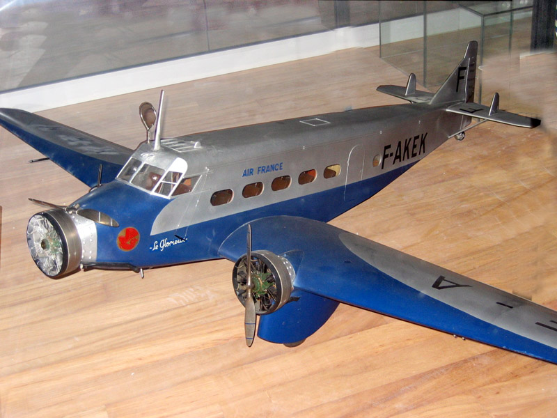 Model of Wibault 283T aircraft